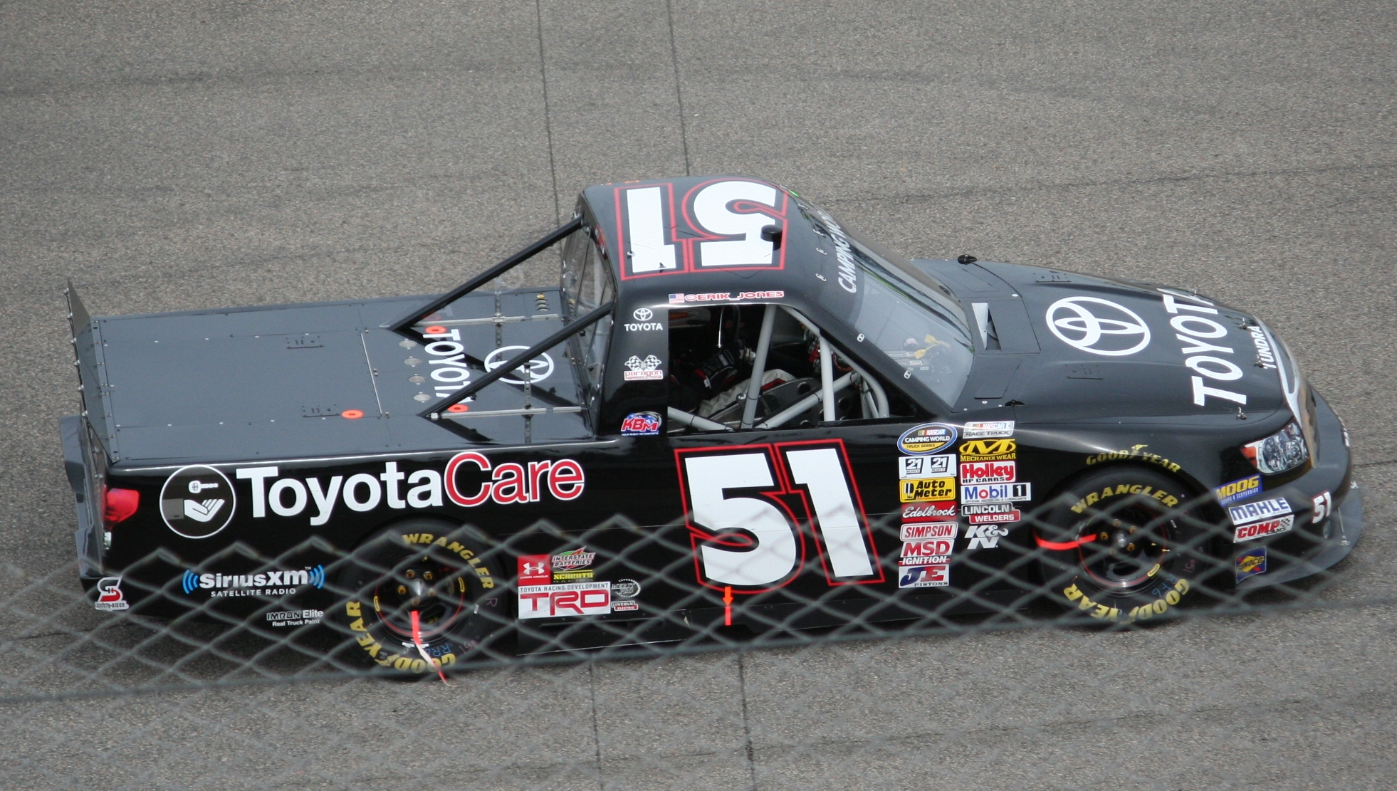 Erik Jones drives the No. 51 ToyotaCare Toyota for Kyle Busch Motorsports during the North Carolina Education Lottery 200 at Rockingham Speedway, Rockingham, NC, April 14, 2013